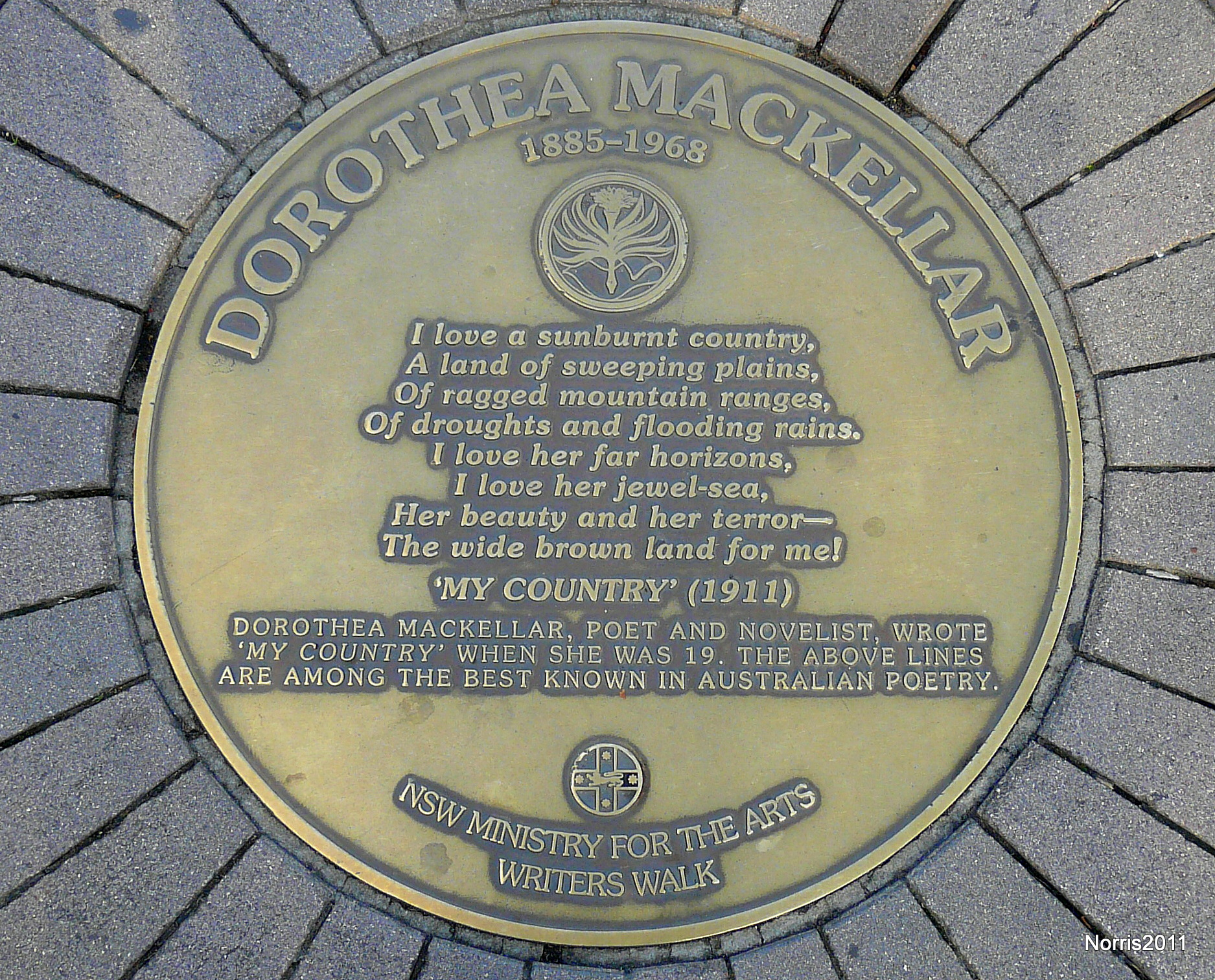 Plaque for Dorothea Mackellar at the Sydney Writers Walk